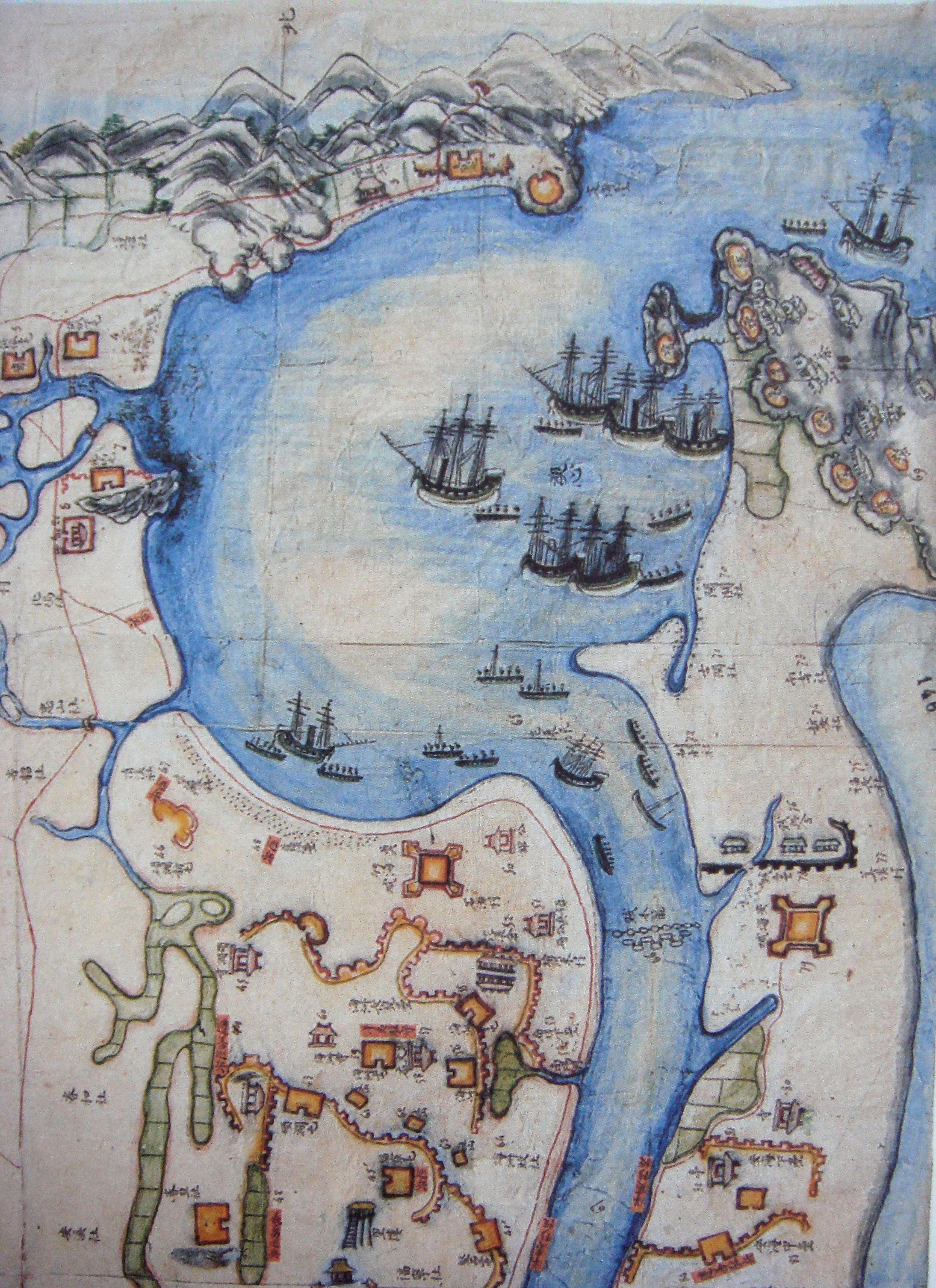 Battle_of_Tourane_Vietnamese_depiction_detail 1859